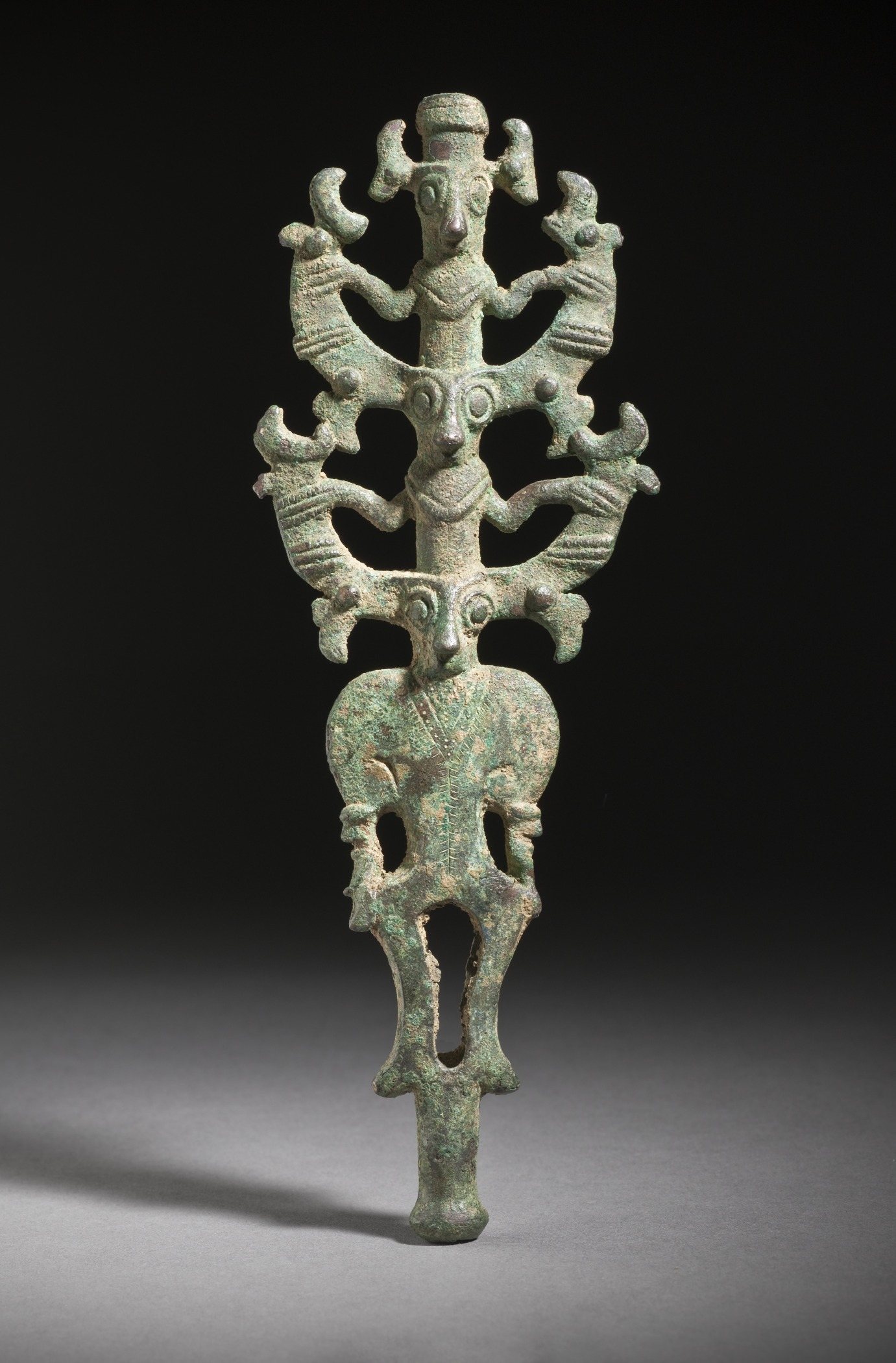 Iran, Luristan, Luristan bronzes, circa 1000-650 B.C. Architecture; Architectural Elements Bronze, cast 8 1/2 x 3 in. (21.4 x 7.5 cm) The Nasli M. Heeramaneck Collection of Ancient Near Eastern and Central Asian Art, gift of The Ahmanson Foundation (M.76.97.90) Art of the Ancient Near East